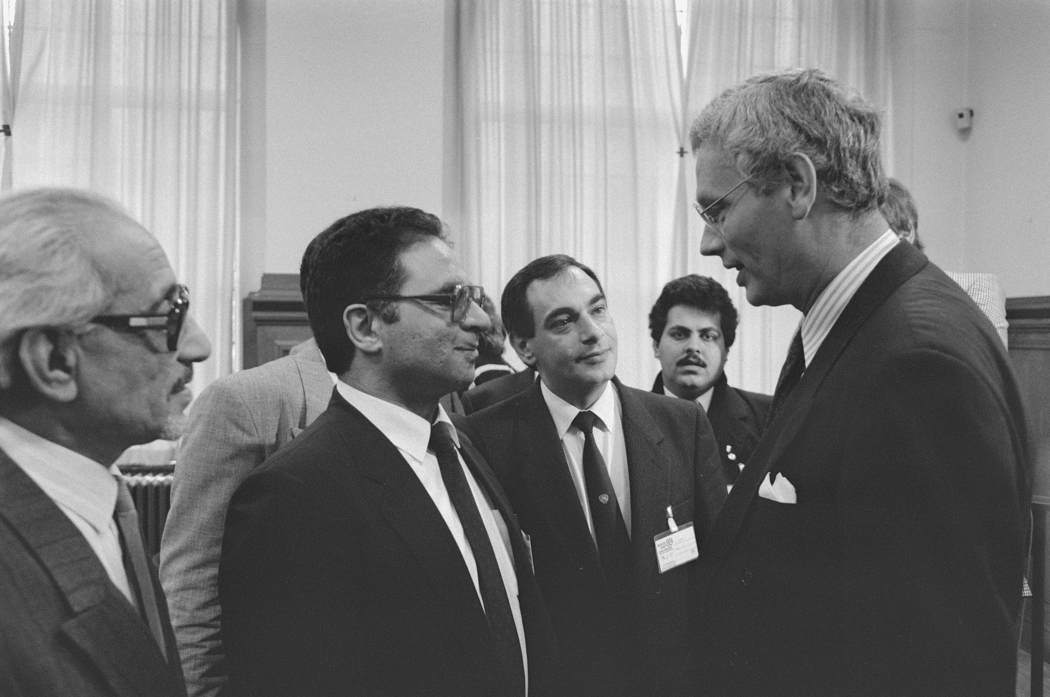 Three-day Palestinian/Israeli Conference in the Peace Palace in The Hague. From left to right: mr X, Bassam Abu Sharif (Palestinian representative), Alex Safian (PLO-representative in The Hague), mr Y. and Dutch Minister of Foreign Affairs Hans van den Broek. Date 31 January 1989